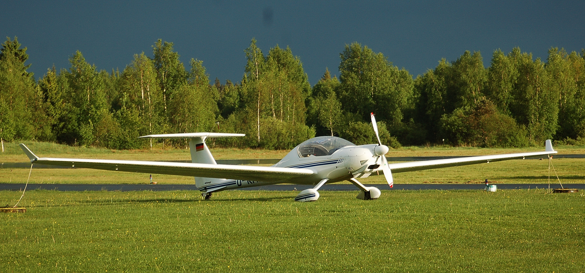 D-KMAL Diamond TTS115 Super Dimona